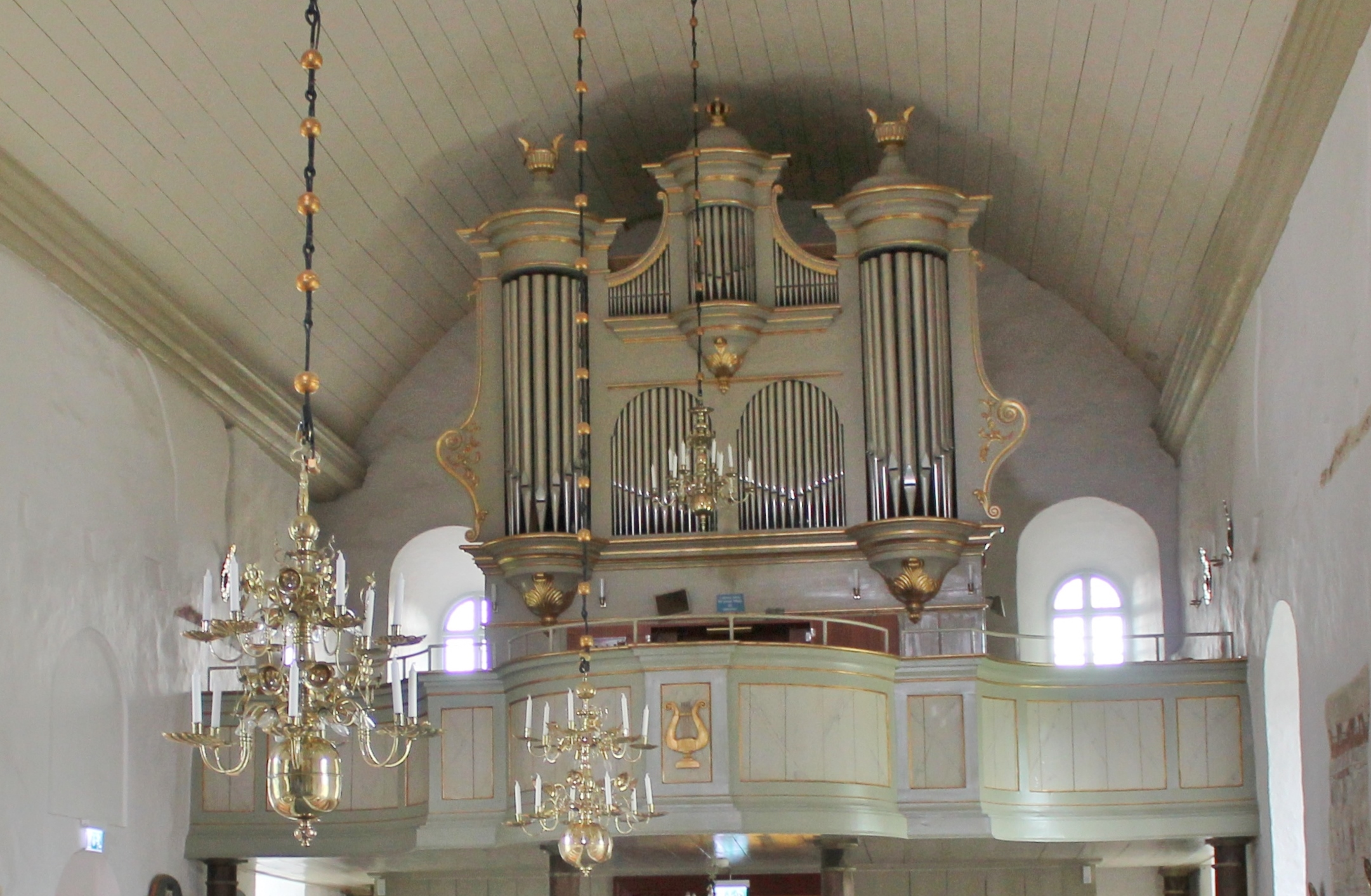 Halltorp Church.Organ